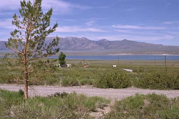 Crowley Lake as seen from the Crowley Lake Campground — Long Valley, Mono County, California. A reservoir in the Los Angeles Aqueduct system.